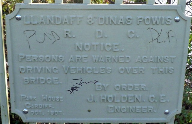 A metal plate, dated October 1907, fixed to the side of the footbridge across the River Taff in Taffs Well. Llandaff and Dinas Powis Rural District Council later became Cardiff Rural District Council.